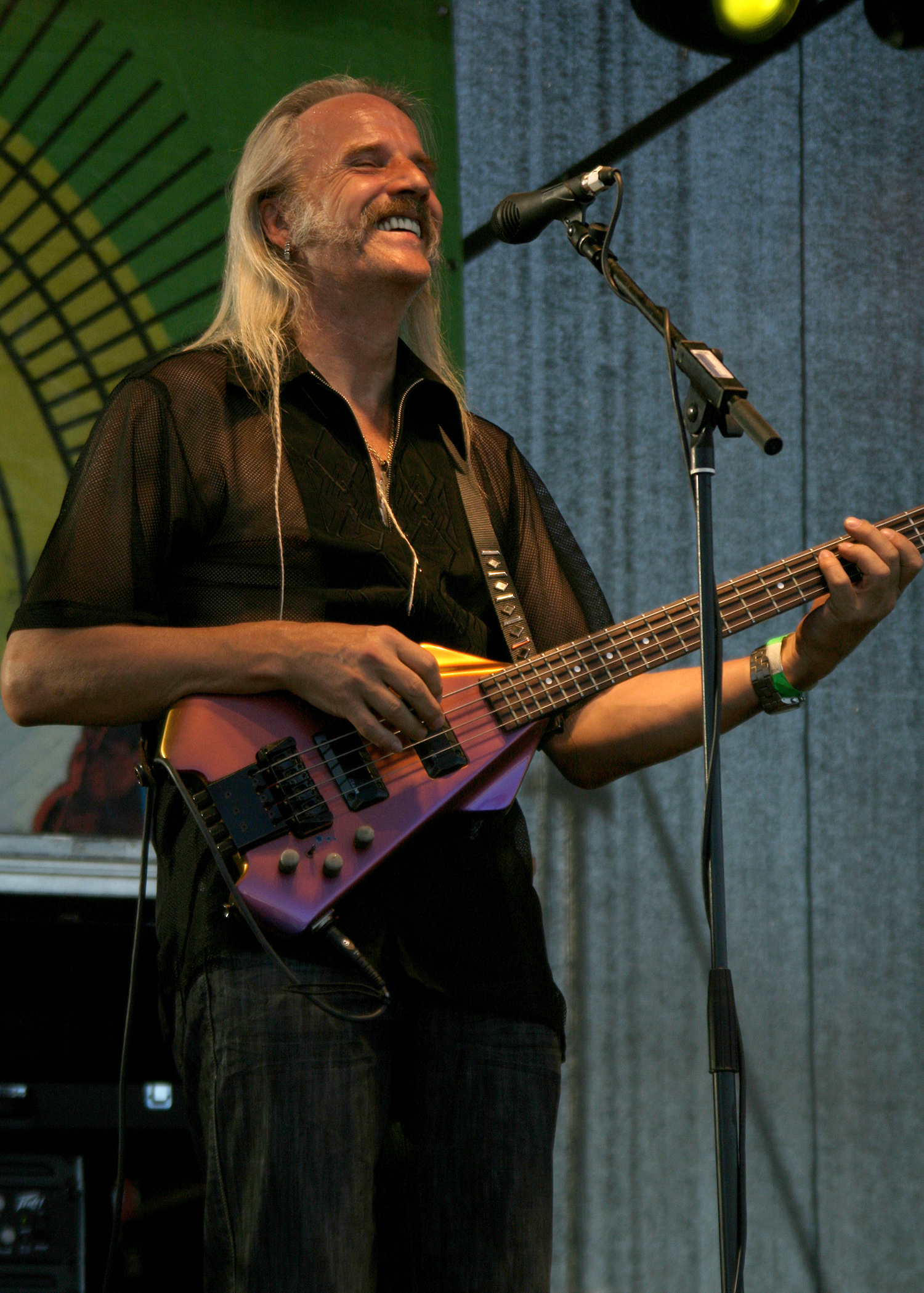 Kurt Hauenstein (Supermax); concert at the Africa Days in Vienna (Austria).